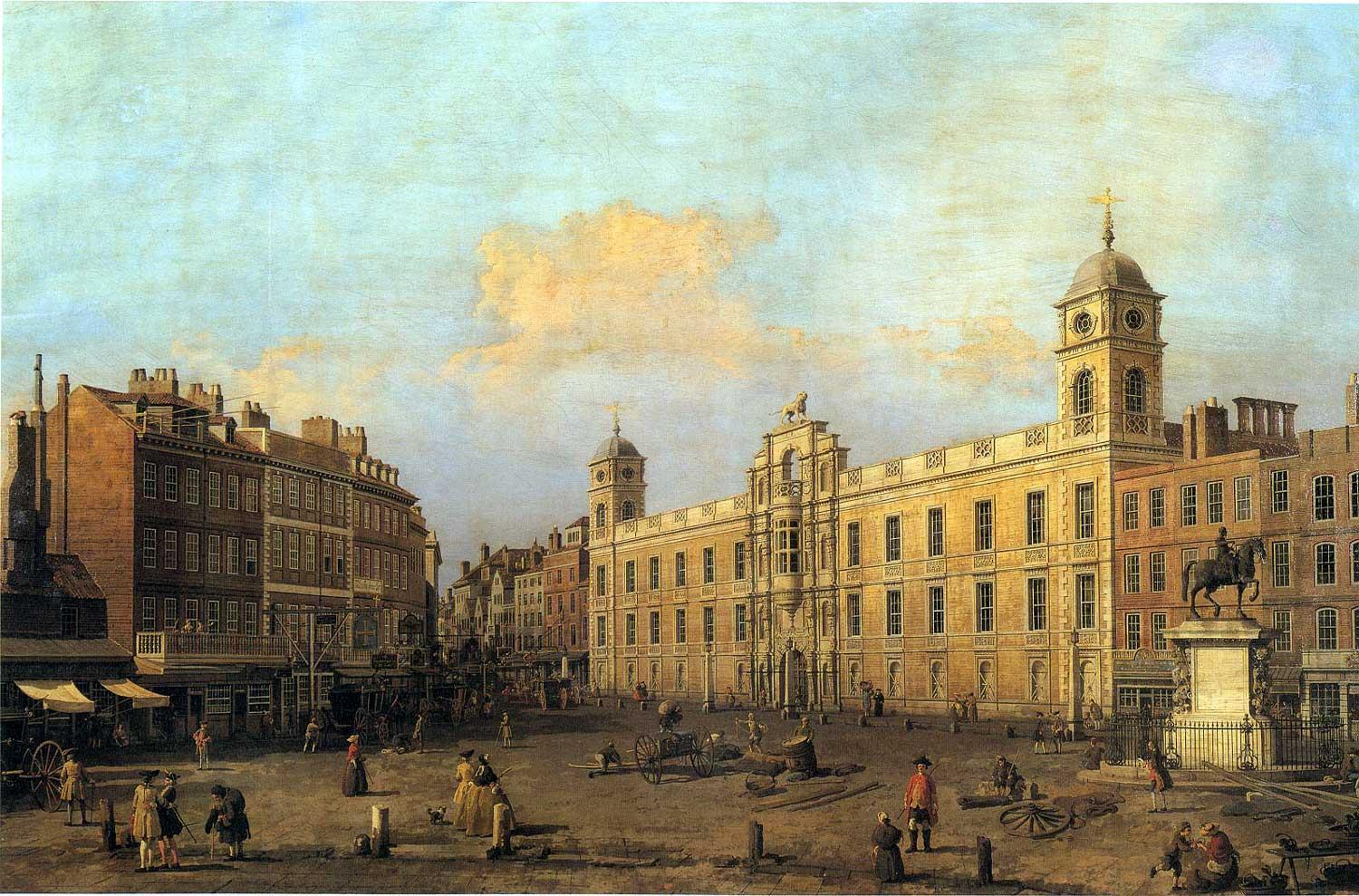 The Strand front of Northumberland House as painted by Canaletto in 1752. The lion is the emblem of the Percy family.